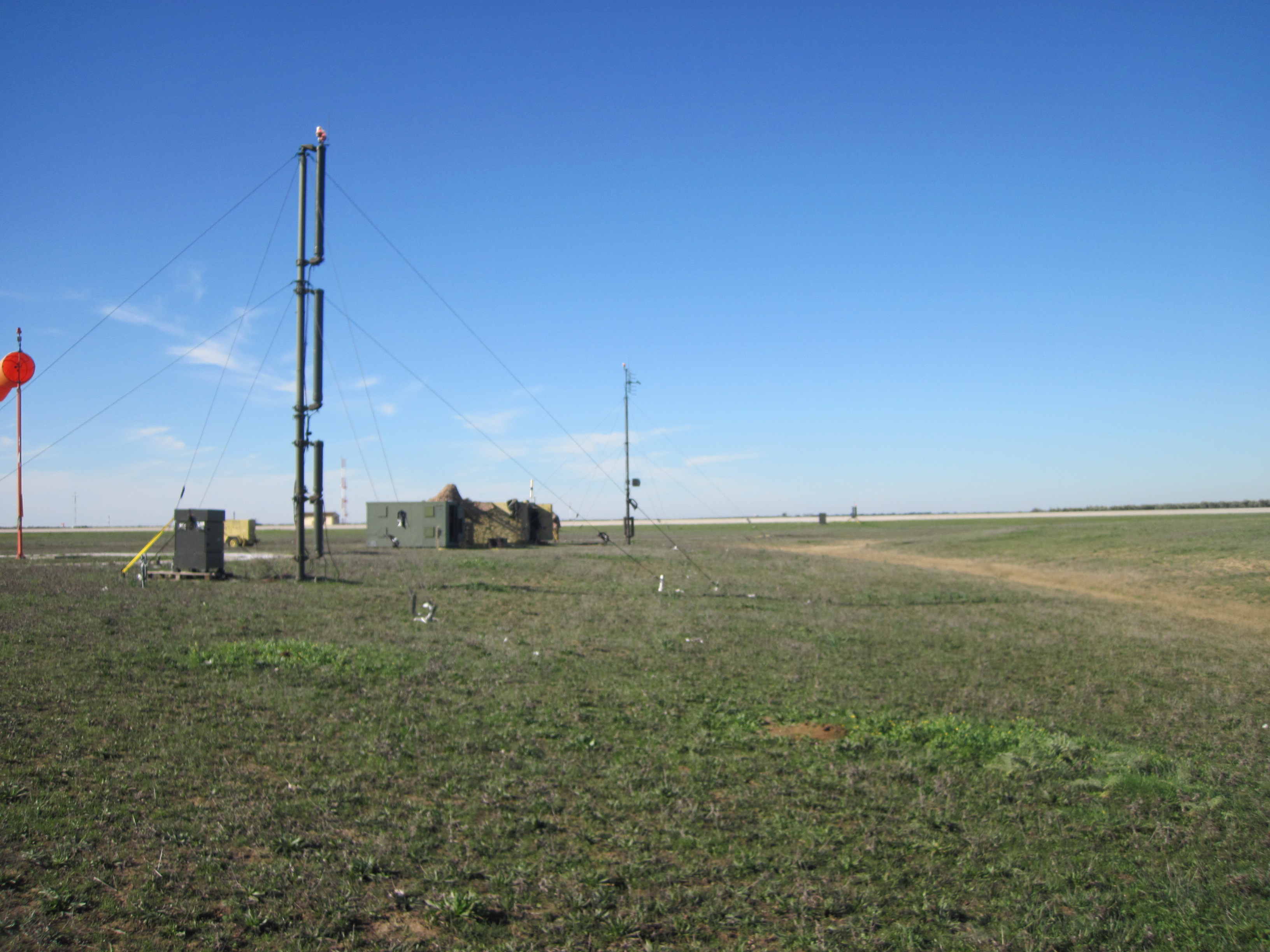 Transportable Transponder Landing System owned by Spanish Air Force deployed to undisclosed location